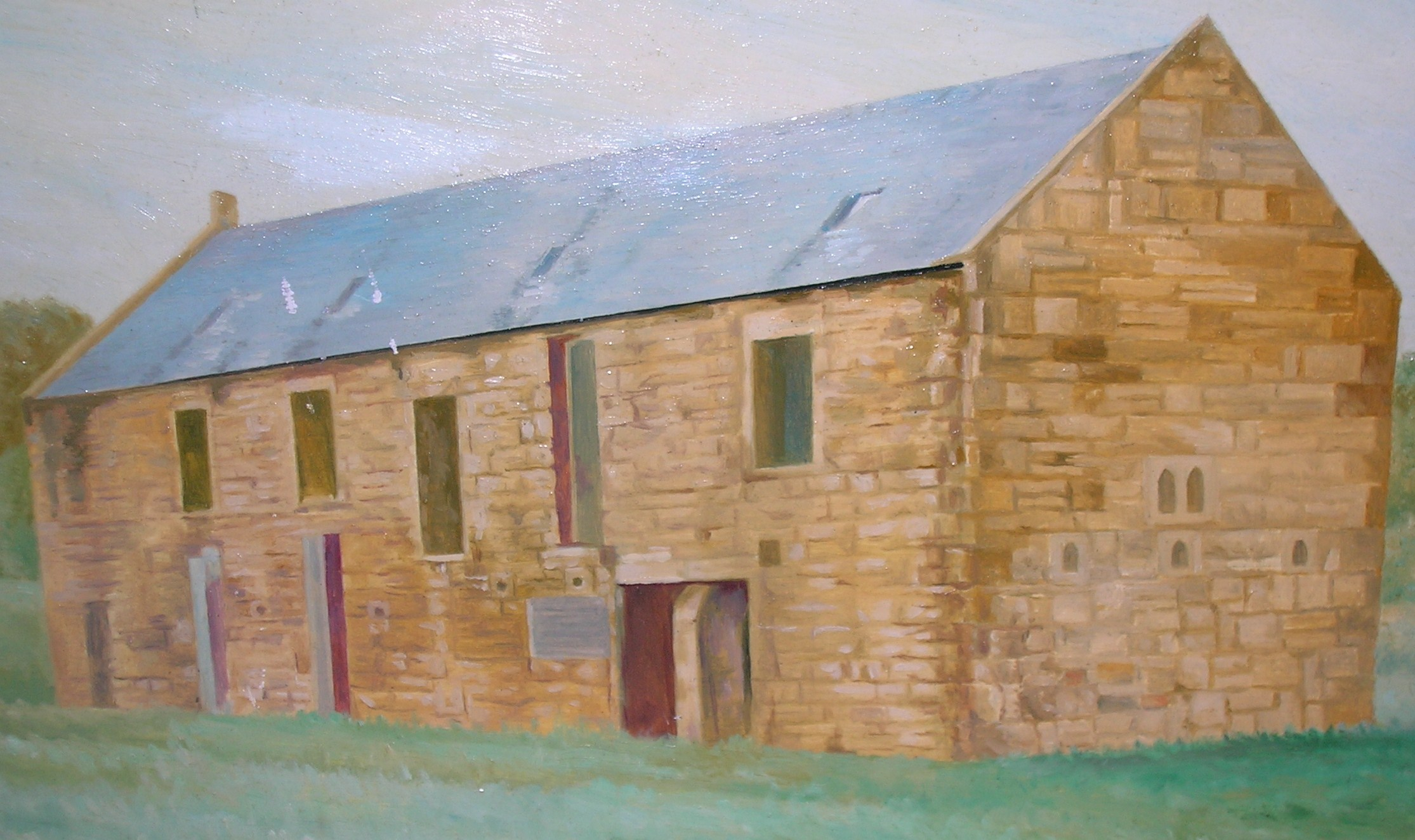 The Oxenward Barn, Kilwinning, North Ayrshire, Scotland